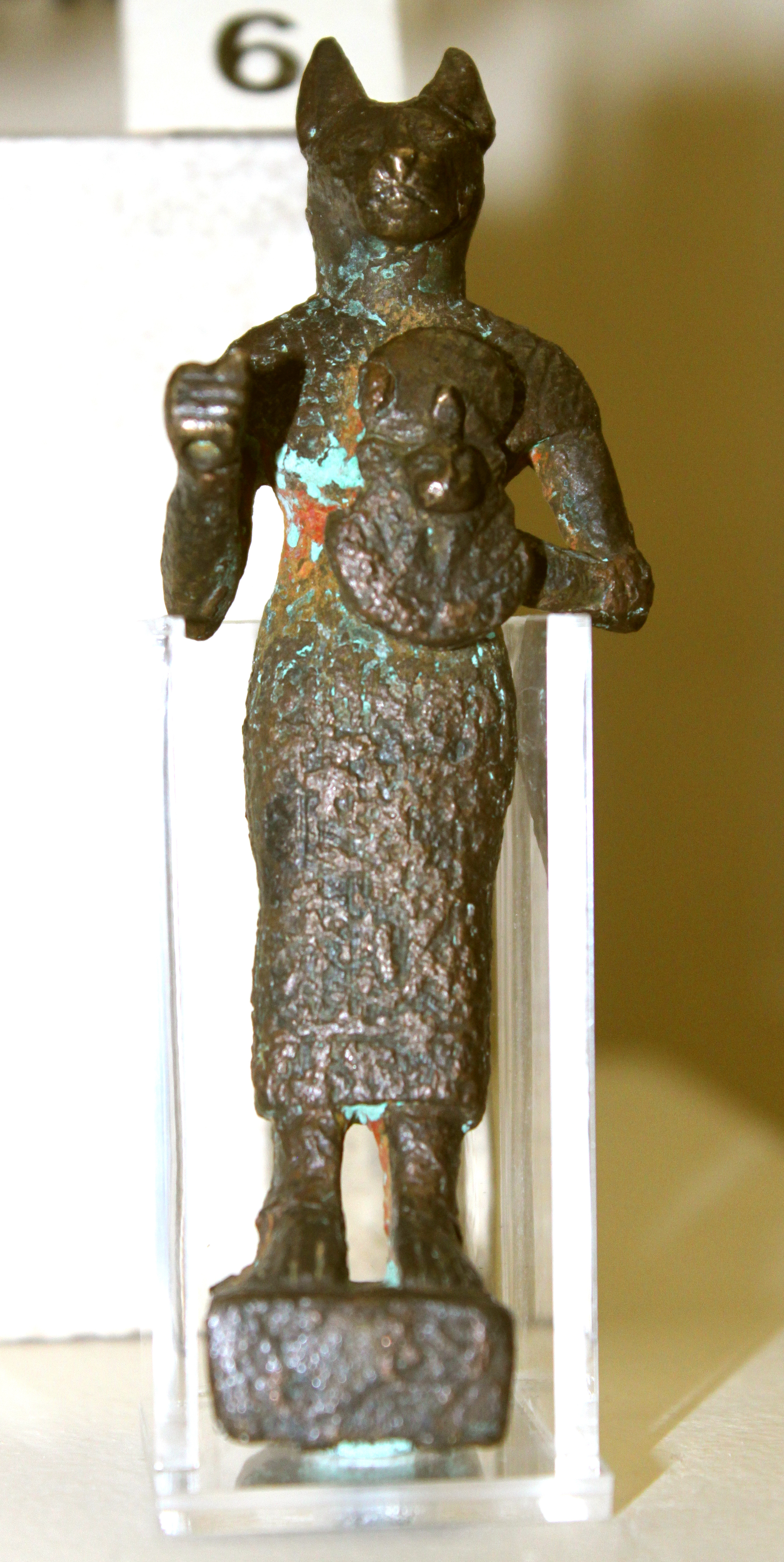 Bronze idol from Ganja